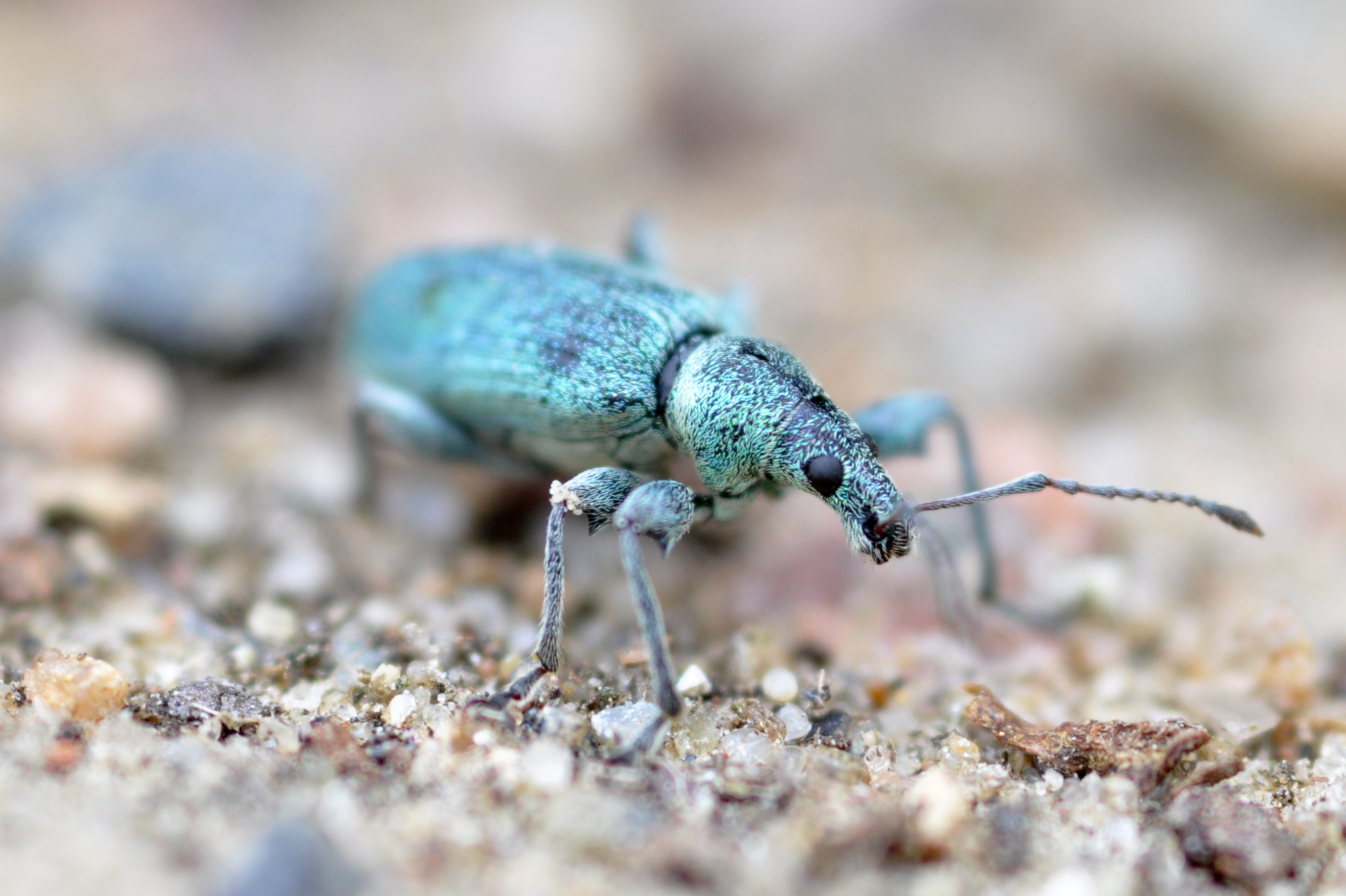 Green Nettle Weevil Phyllobius pomaceus in Kirchwerder, Hamburg